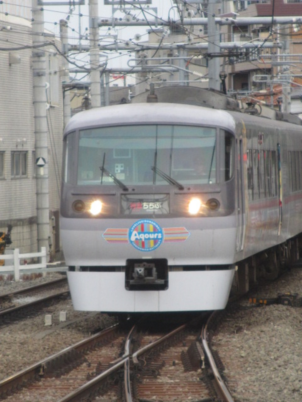 Seibu 10000 series EMU set 10102 in a special "Love Live! Sunshine!!" promotional livery on a Limited Express "Red Arrow" Chichibu No.27 service passing through Higashi-Nagasaki Station.